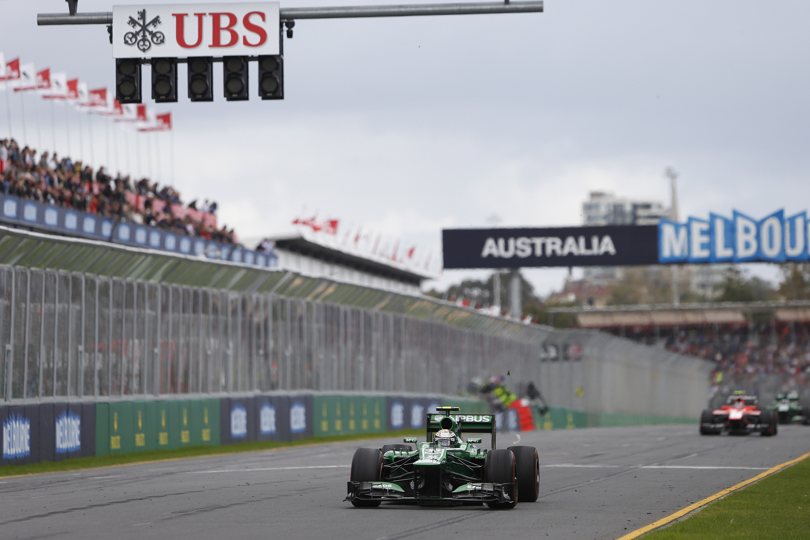 Giedo Van der Garde driving at the 2013 Austalian Grand Prix